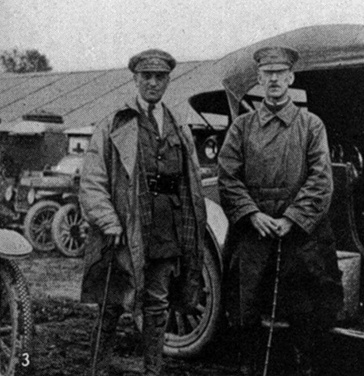 World War I in Reims-Verdon sector, France. Original caption: “A. Patt Andrew, director of the Field Service and Major Church, U. S. A., visiting our section in Champagne.”